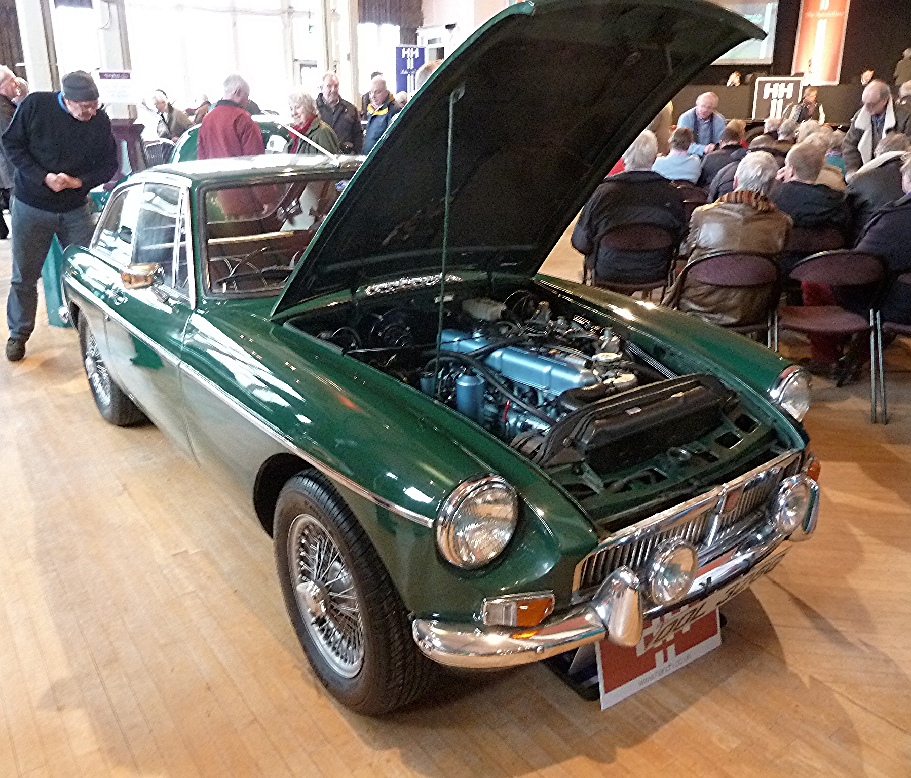 1968 MG C GT, cc:2912 Body Colour: Green Trim Colour:Black From H&H Catalogue: Reg Number:OOL326G Chassis Number:GCD13183 Engine Number:2907